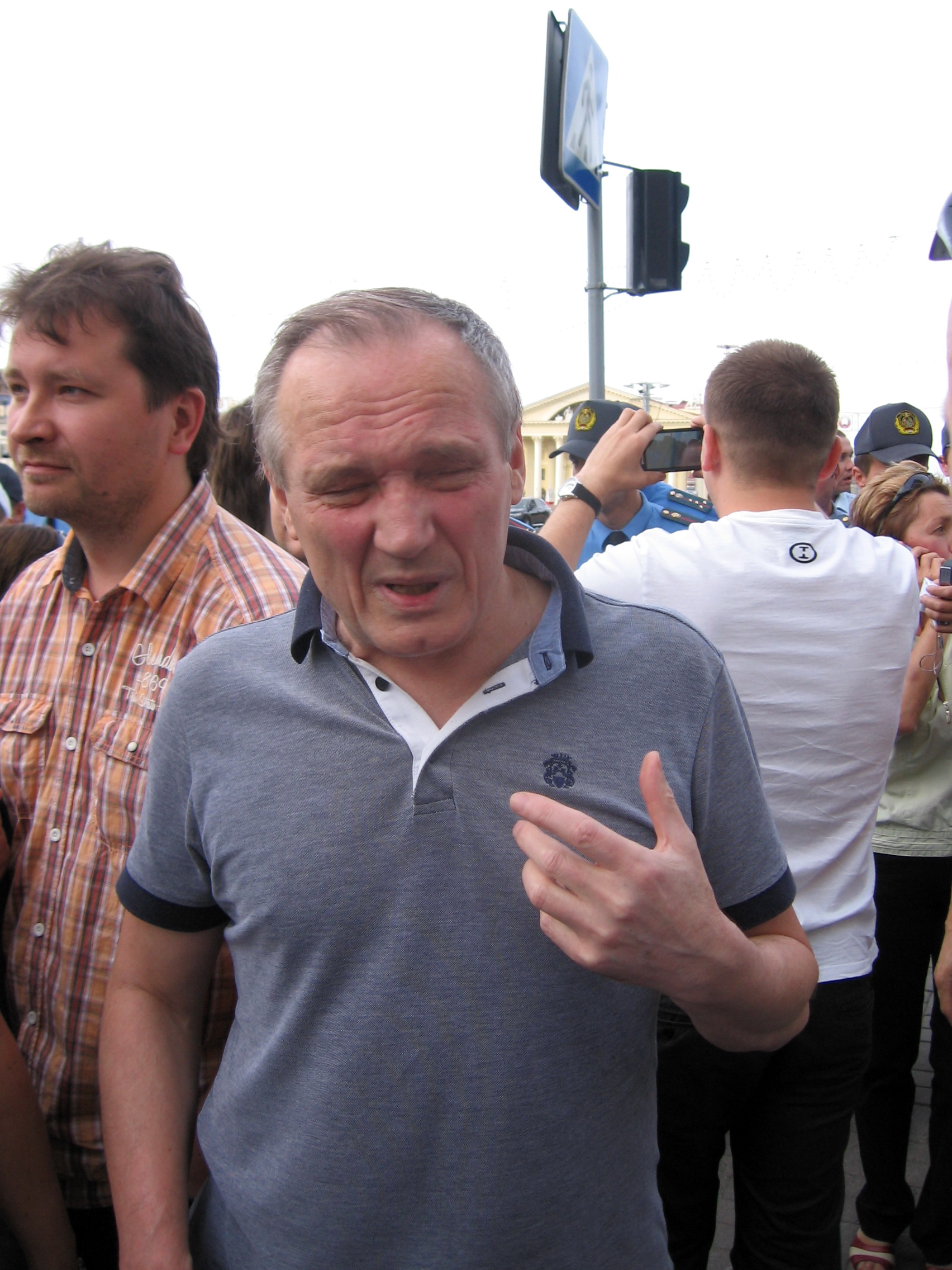 Former candidate for presidency in Belarus Vladimir Neklyayev stock on June 15